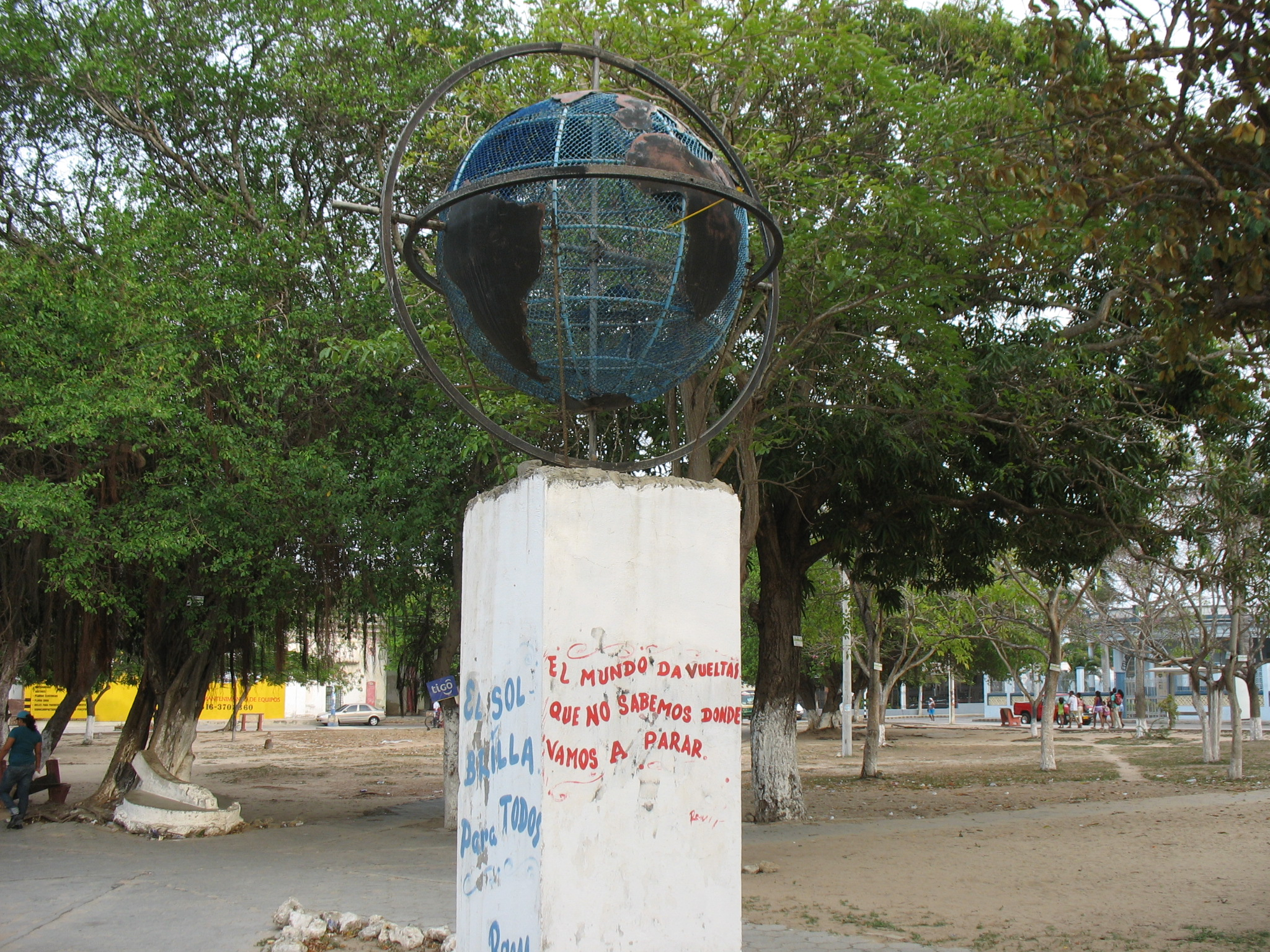 Zero point - Barranquilla